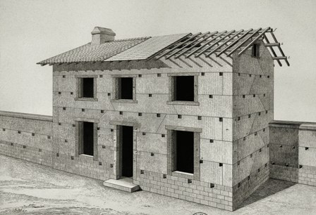 Rondelet: maison en pisé.